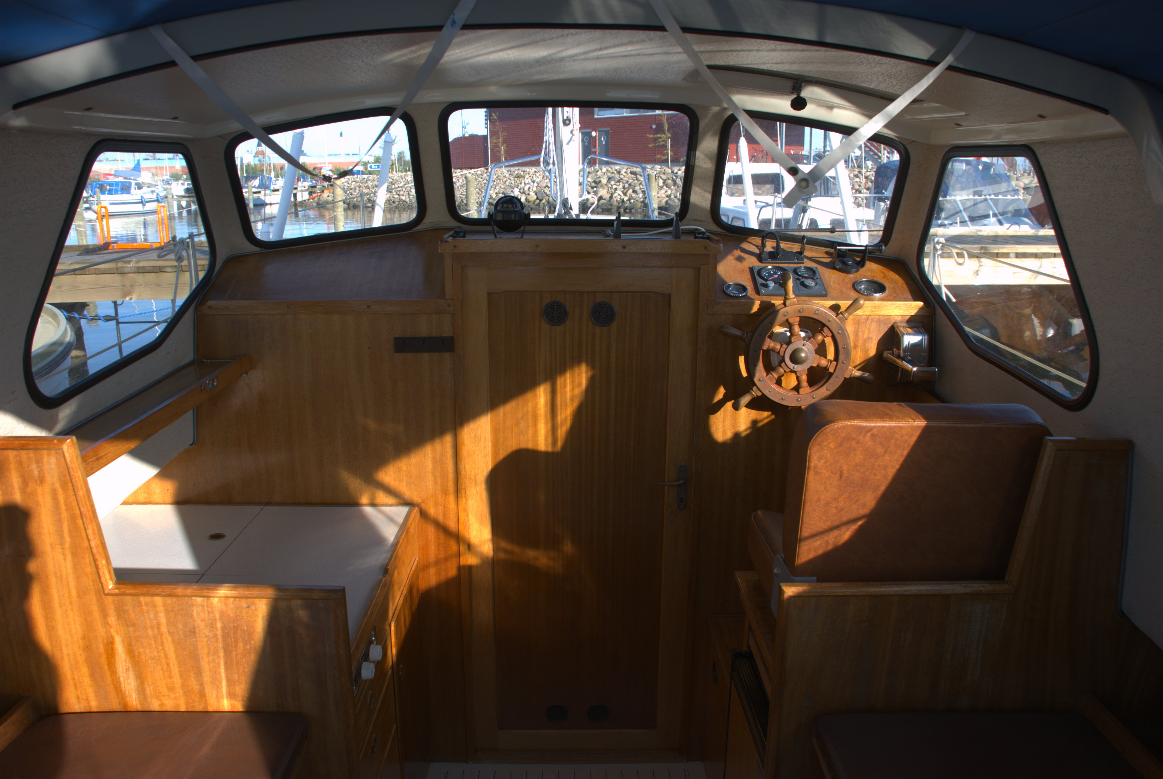 The cockpit of my parent's Lunderskov Møbelfabrik 24 made in the year 1976